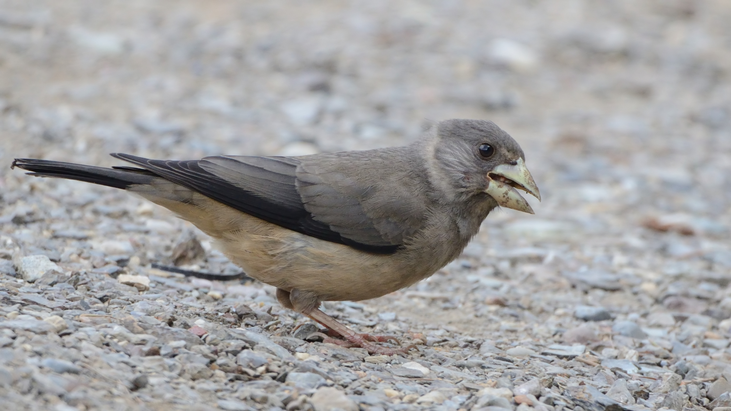 Black-and-yellow grosbeak (Mycerobas icterioides) female feeding by the road side at Dhanaulti, India.